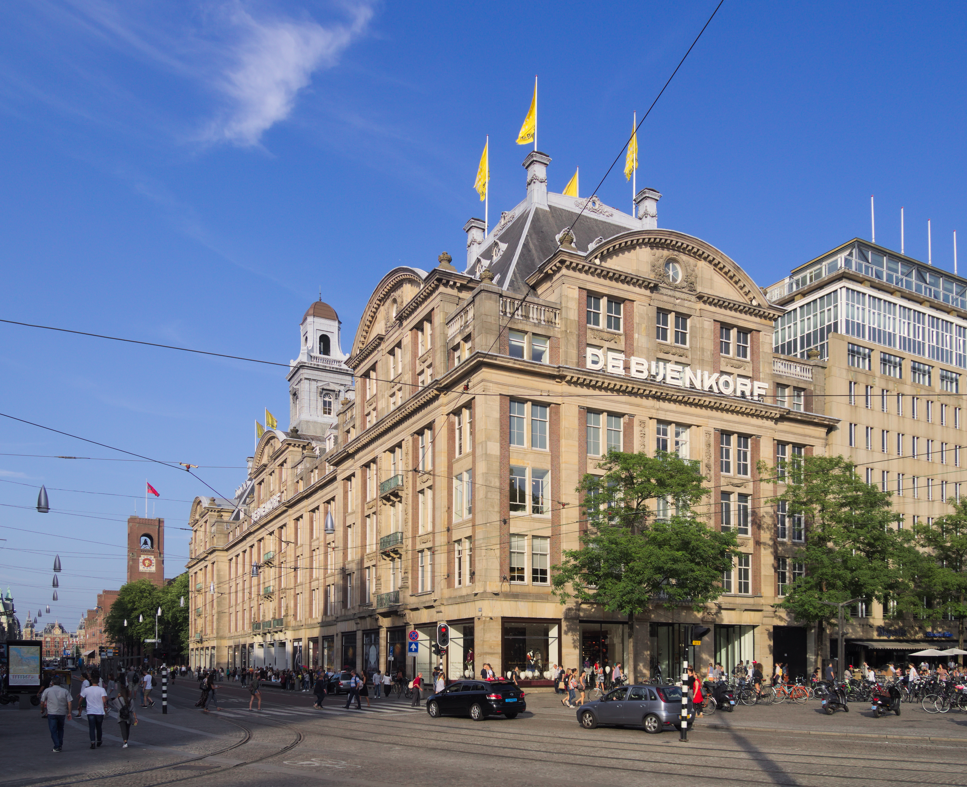 View of De Bijenkorf from Dam square.